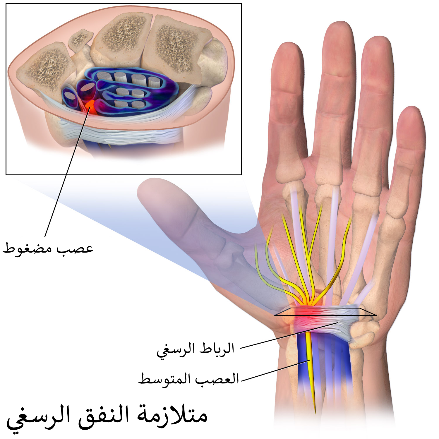 Carpal Tunnel Syndrome.